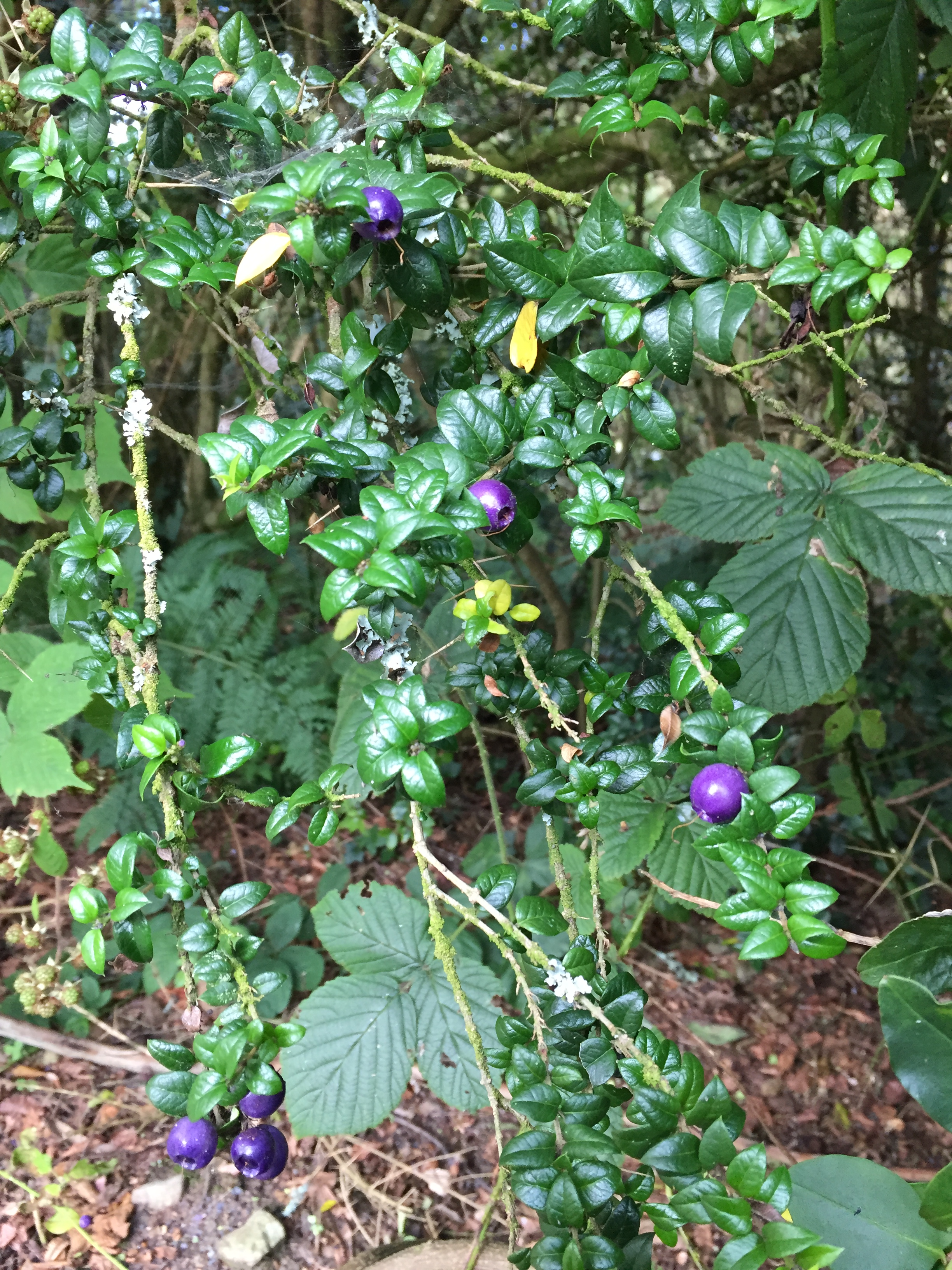 Glossy, attractive, bluish-purple fruits of Rhaphithamnus spinosus (Juss.)Moldenke, family Verbenaceae, borne by one of several specimens of this spiny shrub (native to Chile and Argentina) grown at Logan Botanic Garden, near Stranraer, Scotland.